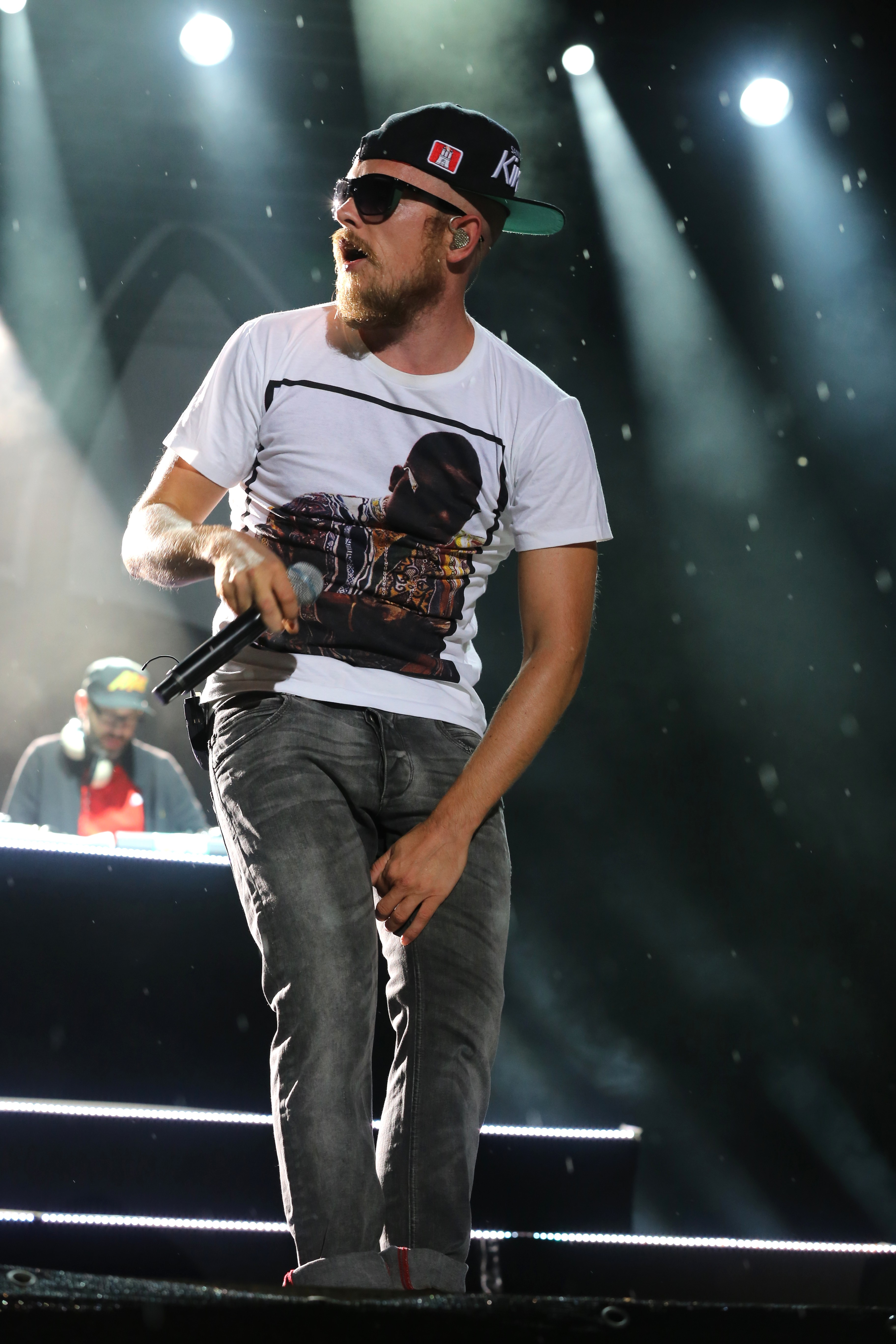 Beginner at Chiemsee Reggae Summer Festival 2013